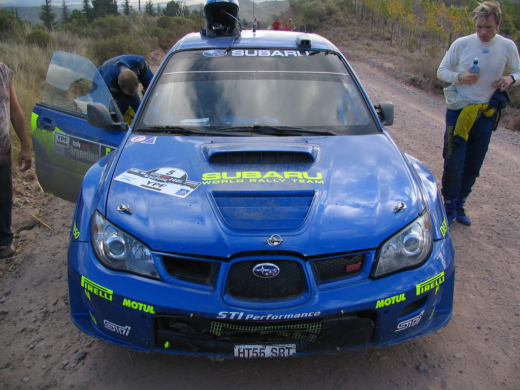 Petter Solberg and Phil Mills with his Subaru Impreza WRC at the 2006 Rally Argentina.